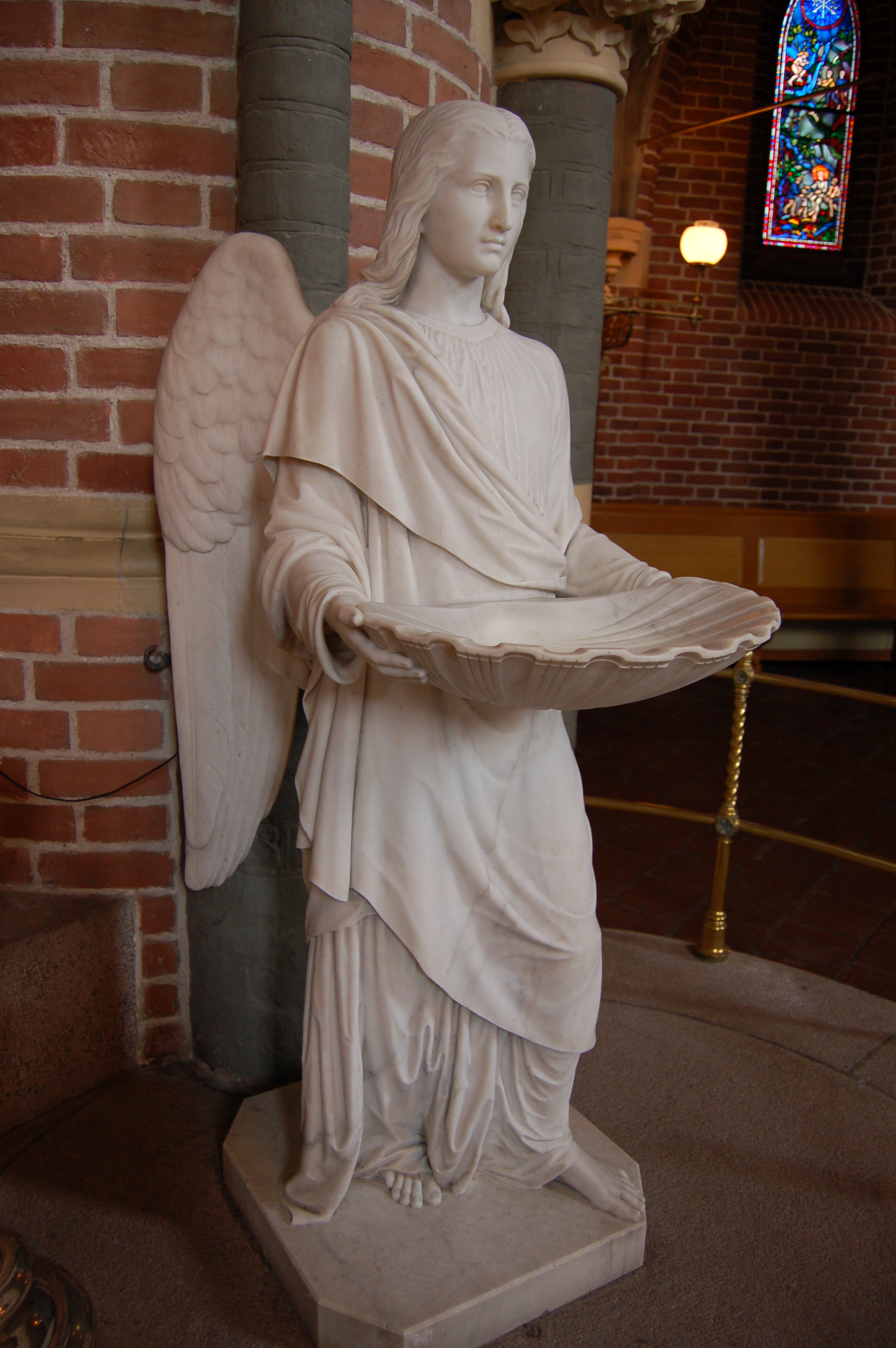 Baptismal angel/font from 1864 by Julius Middelthun in Trefoldighetskirken Oslo